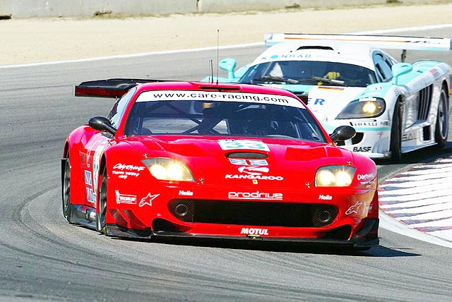 Tomas Enge - Laguna-Seca 2002